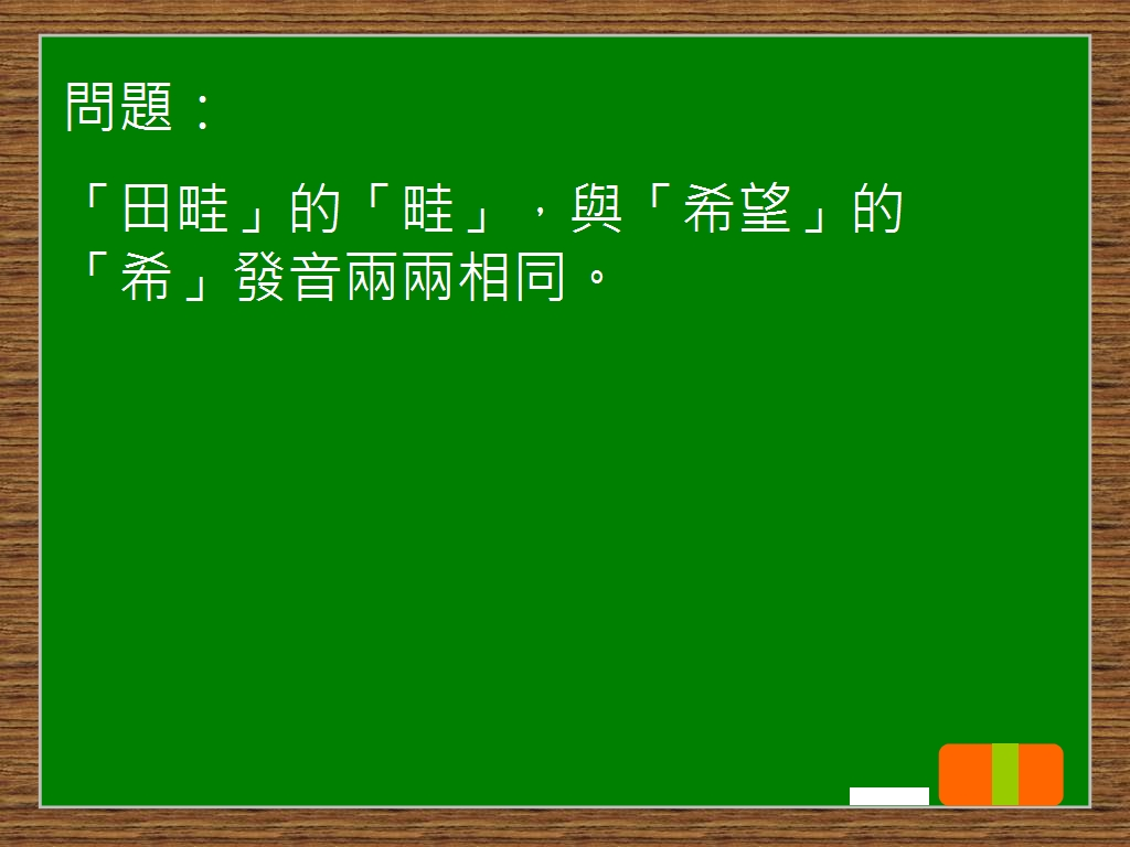 Screenshot simulation from the TV show Are You Smarter Than The Primary School Students? Taiwanese version.